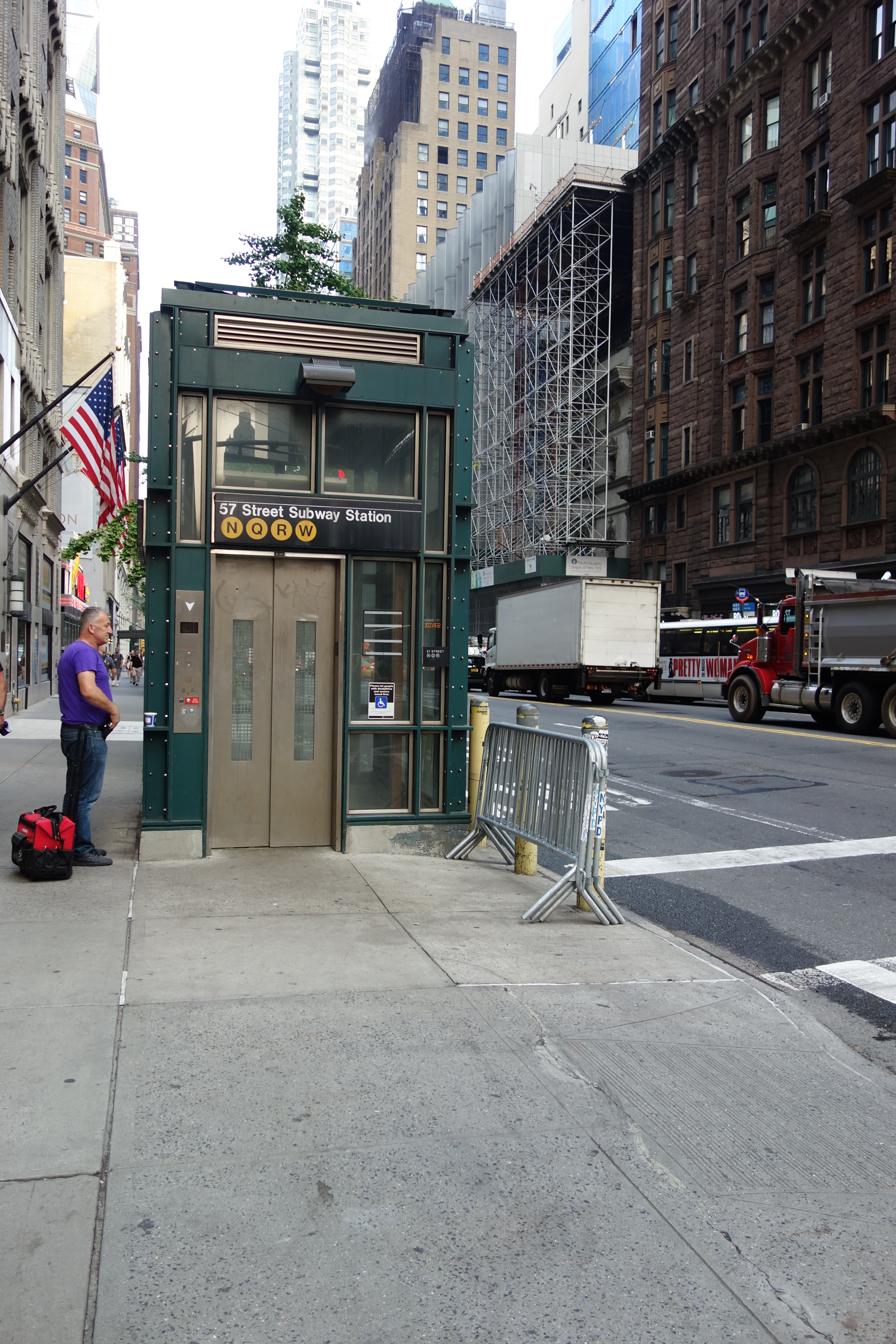 The elevator to the 57th Street BMT station in front of Rodin Studios, at the southwest corner of 7th Avenue and 57th Street in Midtown Manhattan.